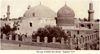 Mosque of Sheikh Abd Alkadr in Baghdad 1914